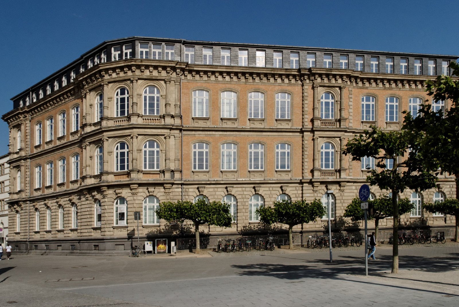 Building Burgplatz 1 in Düsseldorf-Altstadt, Germany